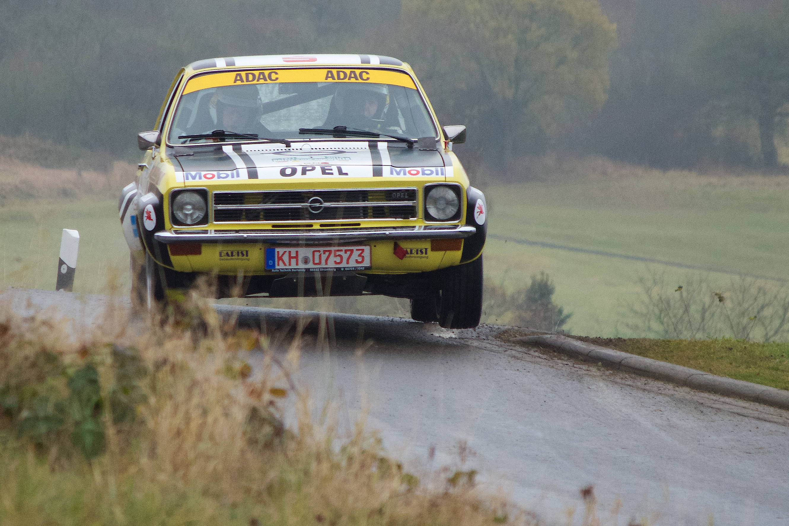 Opel Ascona A driven by Georg Berlandy and co-driver Peter Schaaf during the 2012 Rallye Köln-Ahrweiler